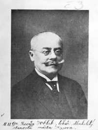 Joklik Severin